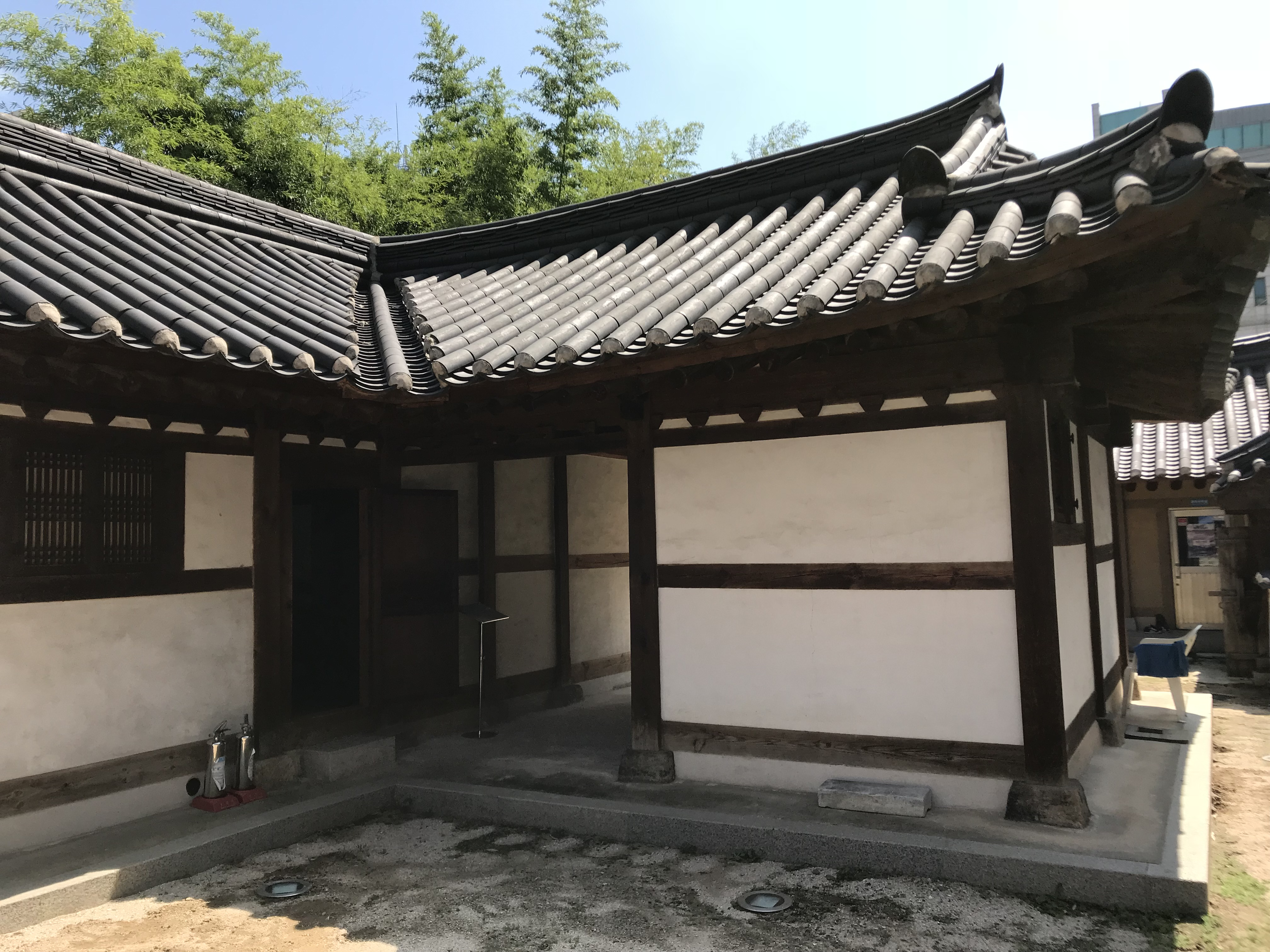 Formal Seoyimyeon office, the Cultural Resources of Gyeonggi-do #100